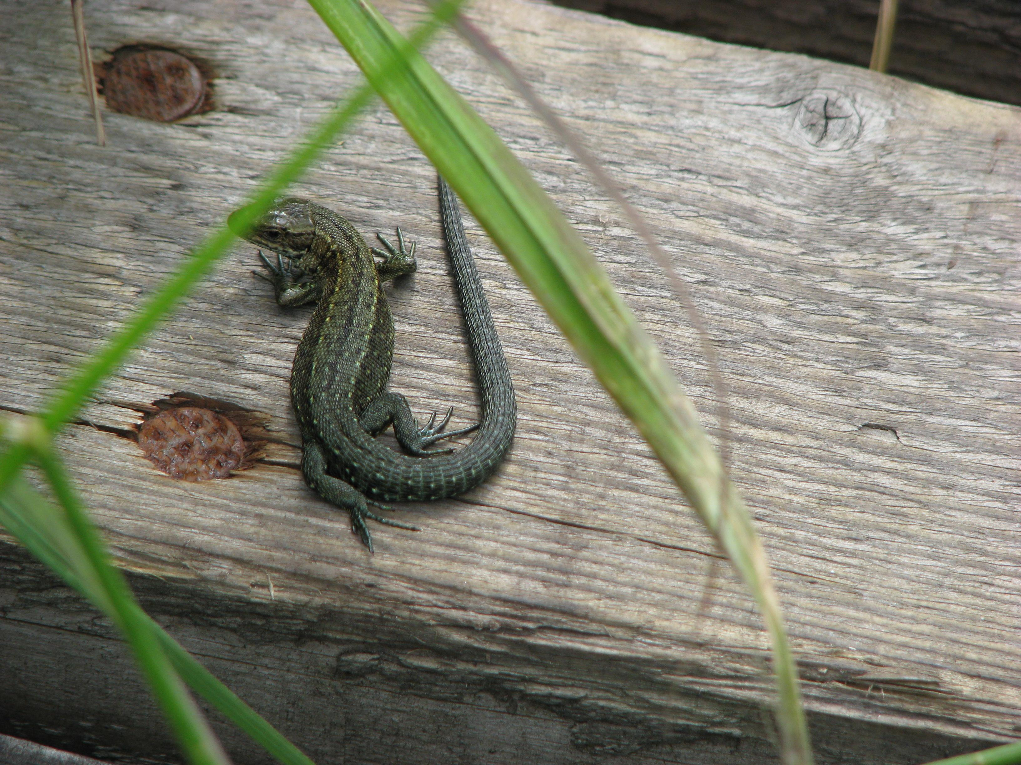 Lacertidae, High Fens, Belgium